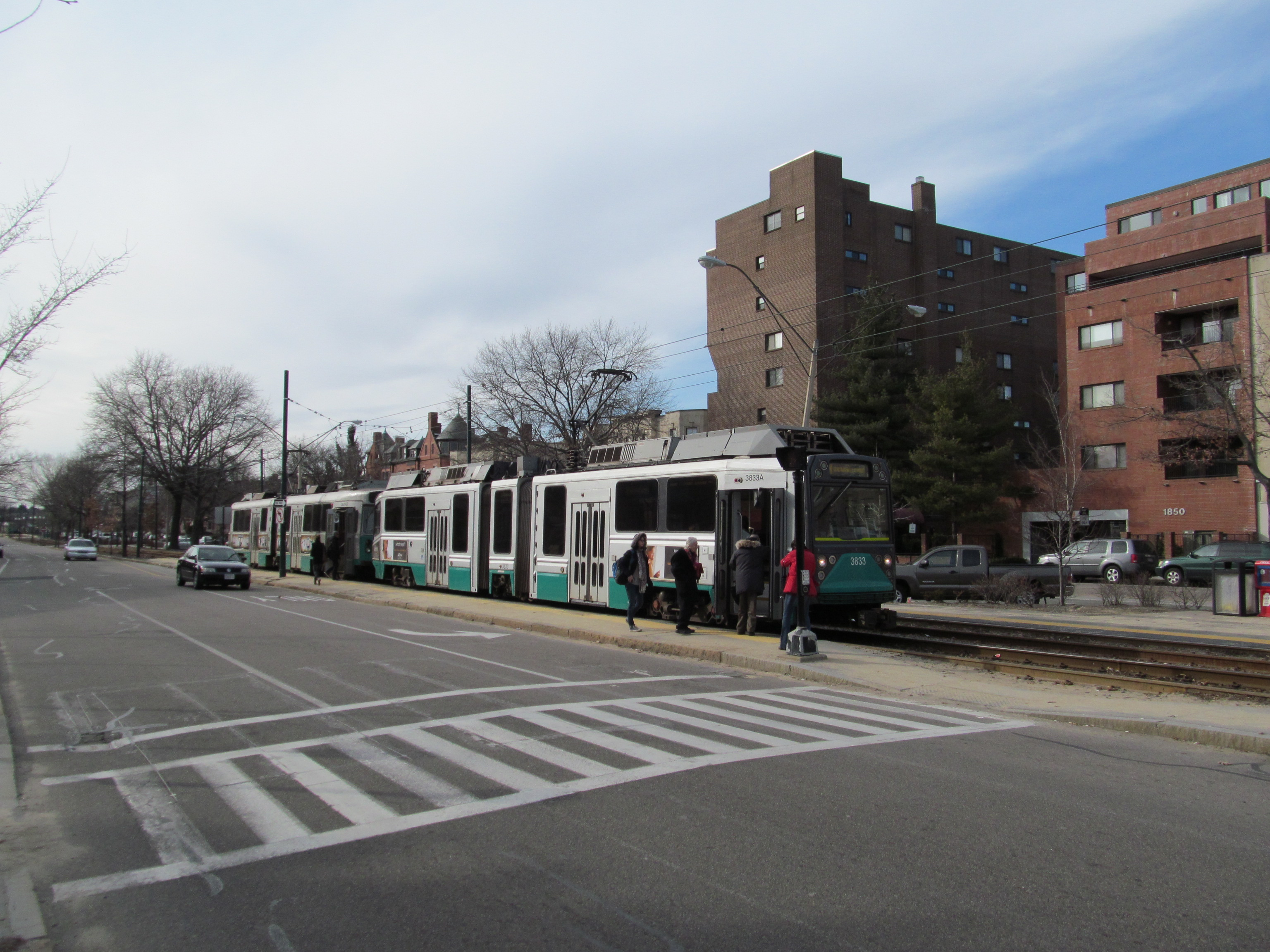 Englewood Avenue MBTA station inbound, Brookline Massachusetts